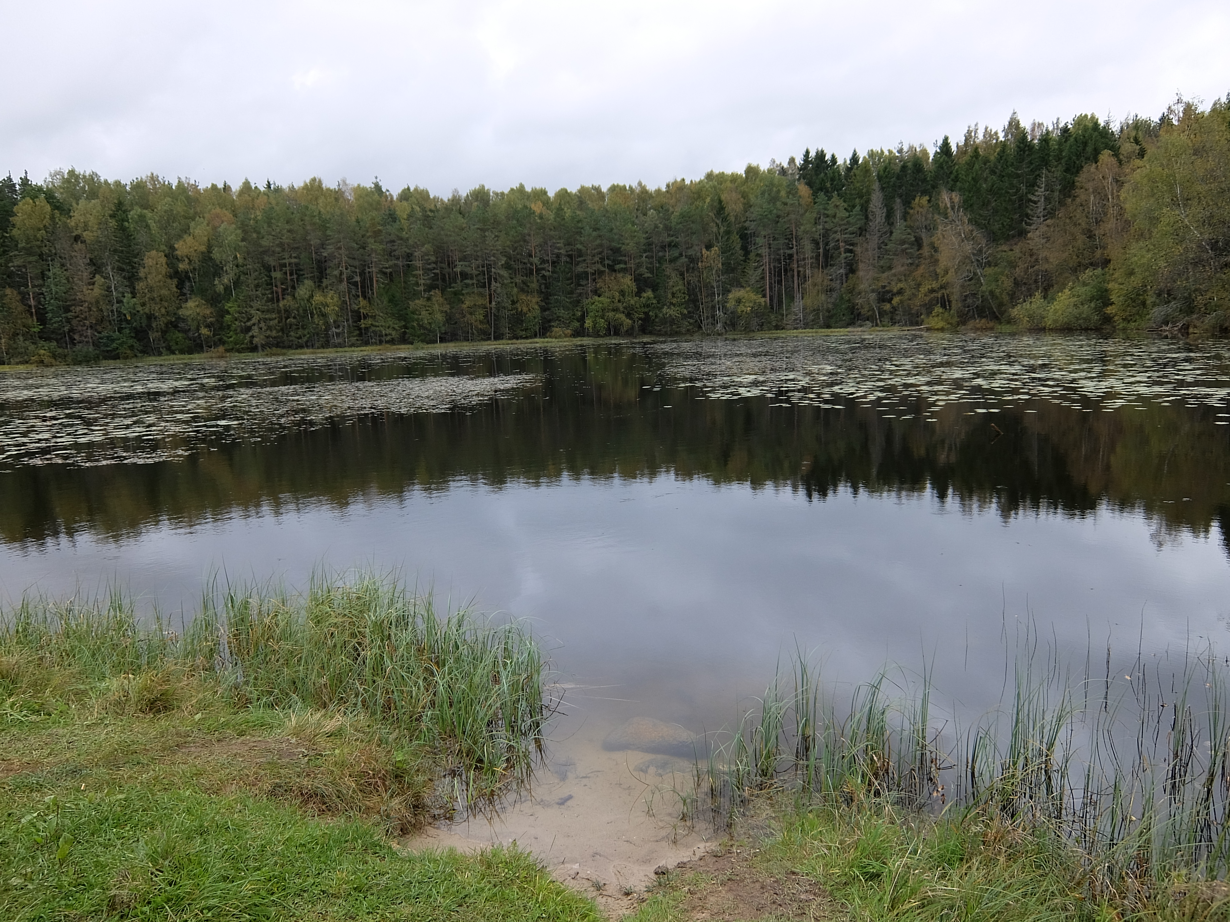 Lake Rõõsa